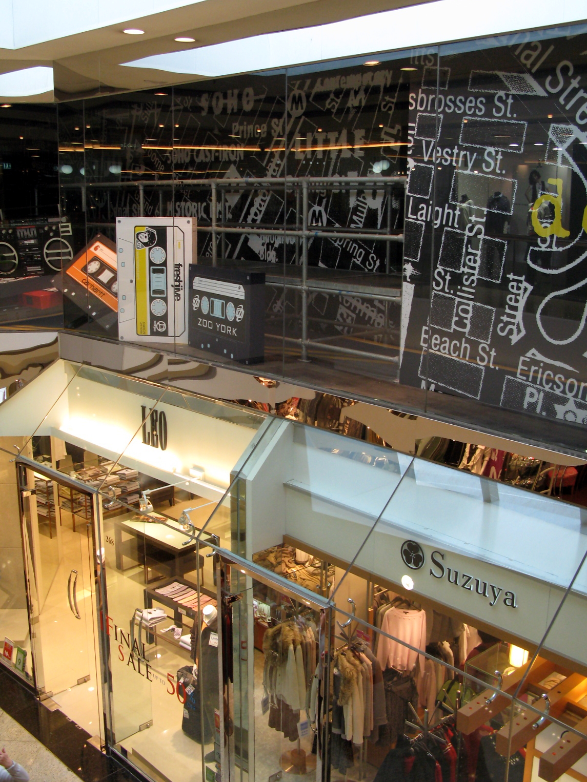 Grand Century Place Level 2 to Level 3 Shops